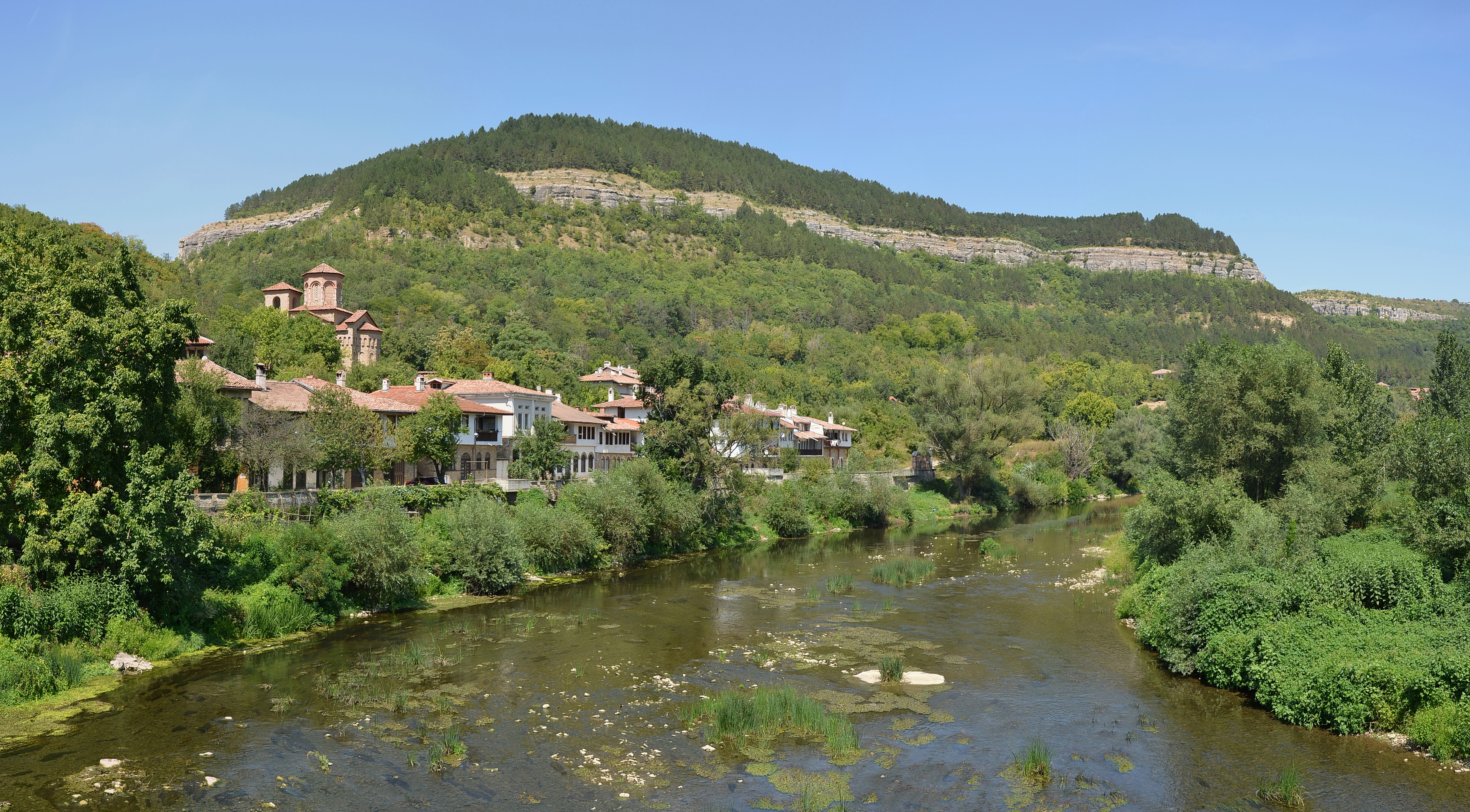 Veliko Tarnovo (Велико Търново) - Asenova Mahala quarter